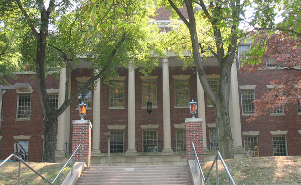 Depicted place: Georgetown University Medical Center